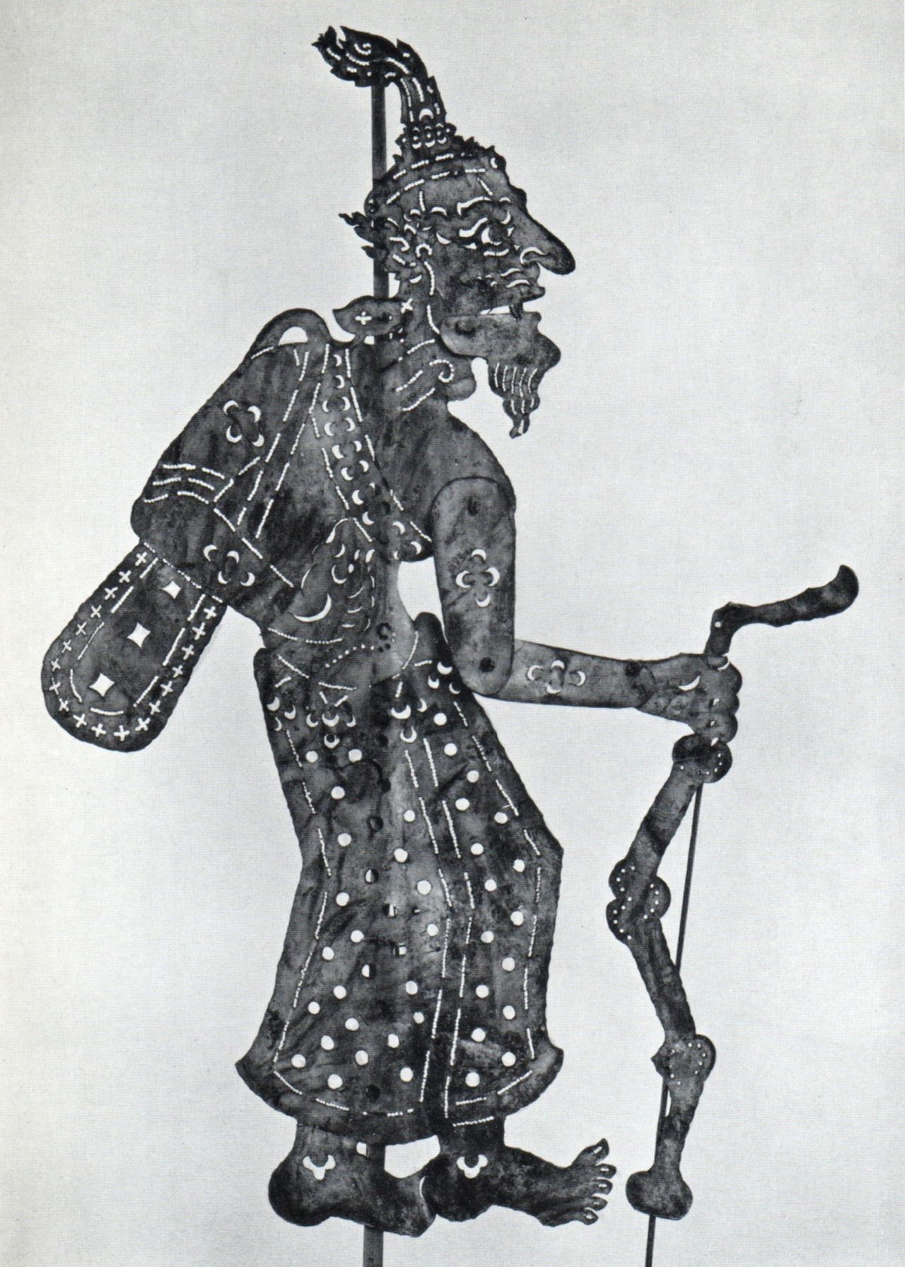 Nang talung, Rusi